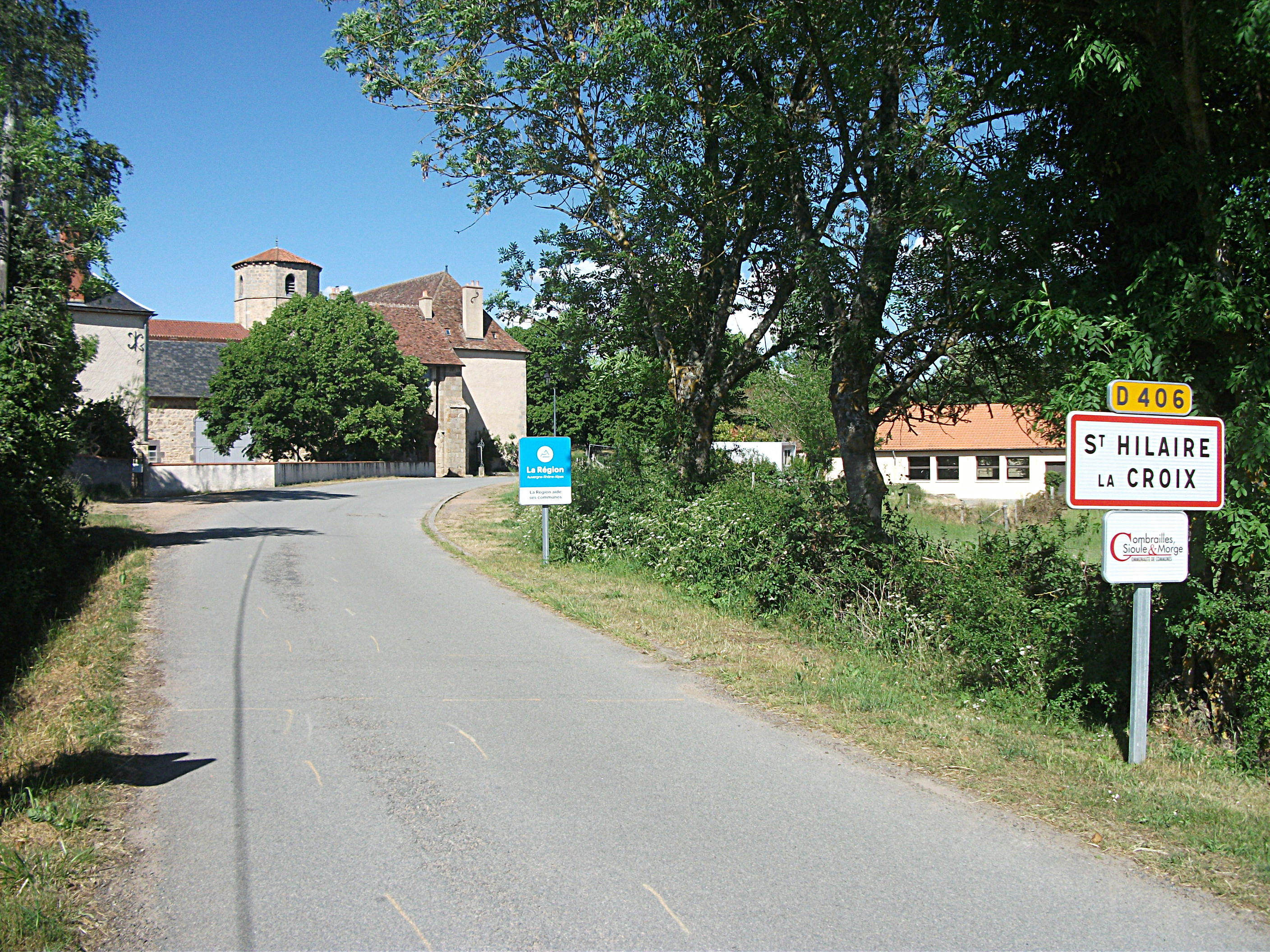 Entrance of Saint-Hilaire-la-Croix (Puy-de-Dôme, Auvergne-Rhône-Alpes, France) by departmental road 406 [18449]